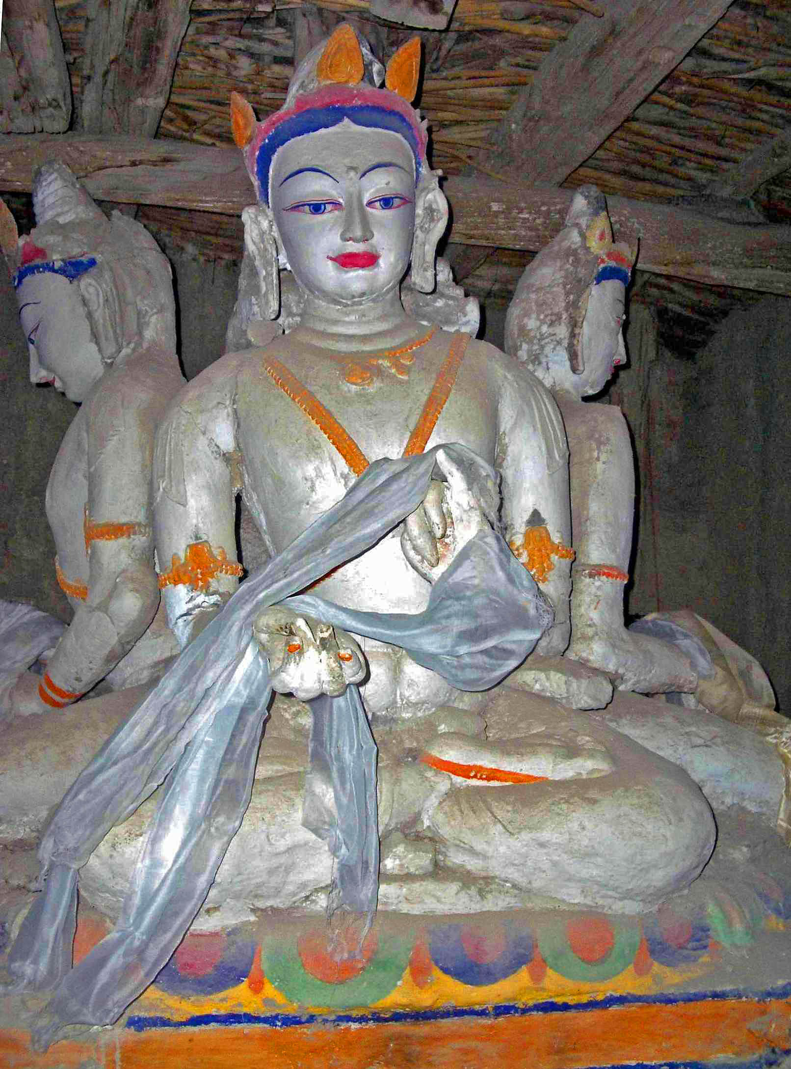 I took this photo myself in 2004